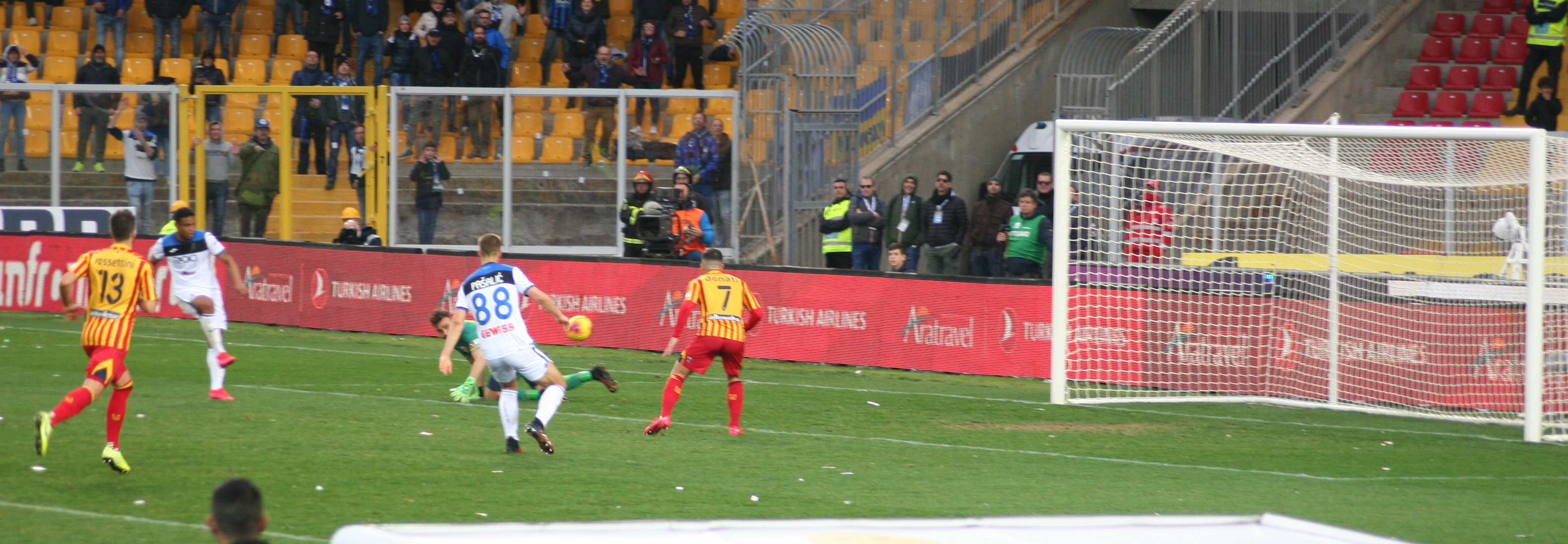 Muriel scores a goal during the Lecce-Atalanta match on 1st March 2020 at the Via del Mare stadium in Lecce